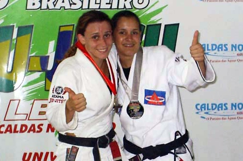 Danielle Piermatei e Aline Coelho no pódium do Campeonato Brasileiro Interclubes de Jiu-Jitsu realizado em Caldas Novas, 2004.